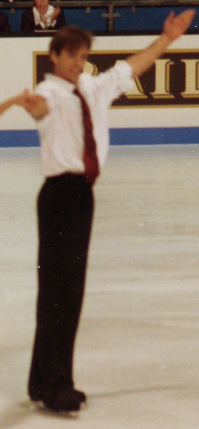 Oksana Grishuk and Evgeny Platov at the European Championships 1994 in Copenhagen